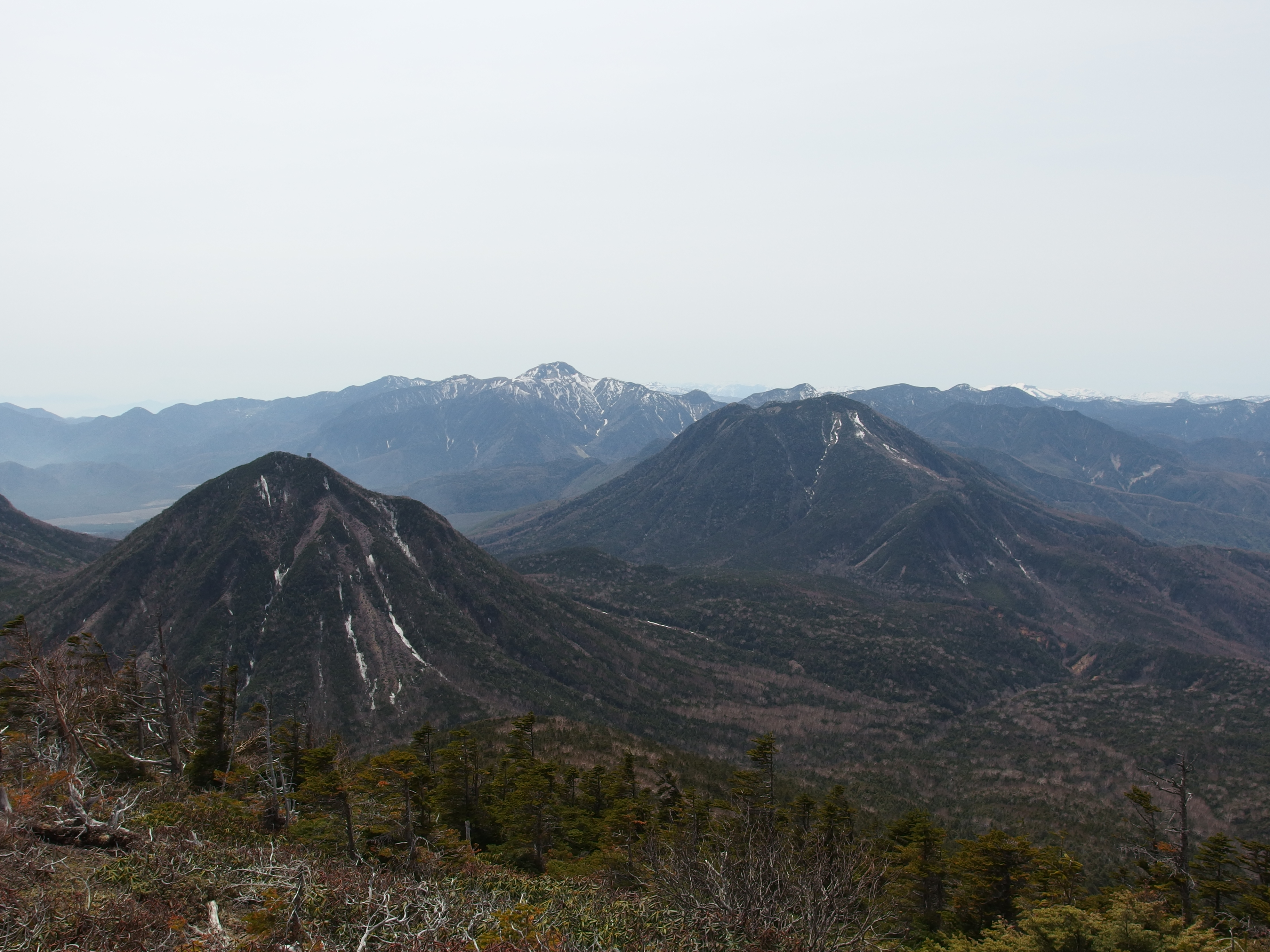 Japan: mounts Komanako (left), Tarō (center) and Nikkō-Shirane (far away snowy summit) (Nikkō city, Tochigi prefecture).